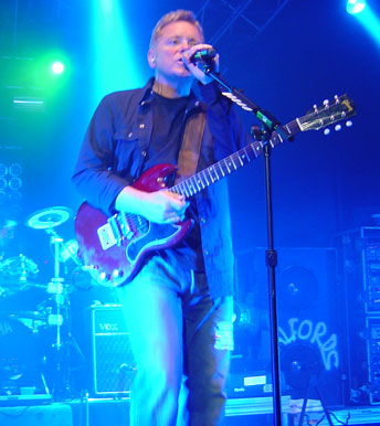 Bernard Sumner, live at the Hammerstein Ballroom, New York City, 2005.